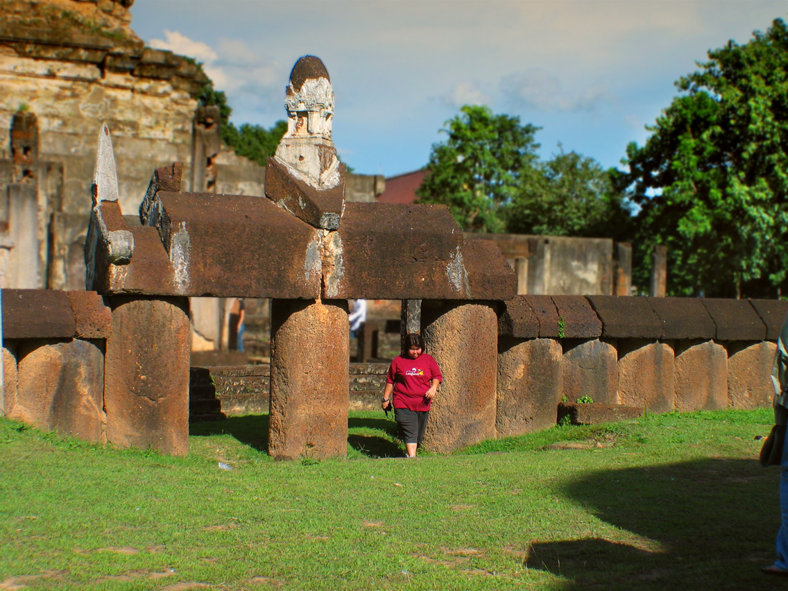 Wat Phra Sri Rattana Mahathat, Si Satchanalai, northern Thailand.